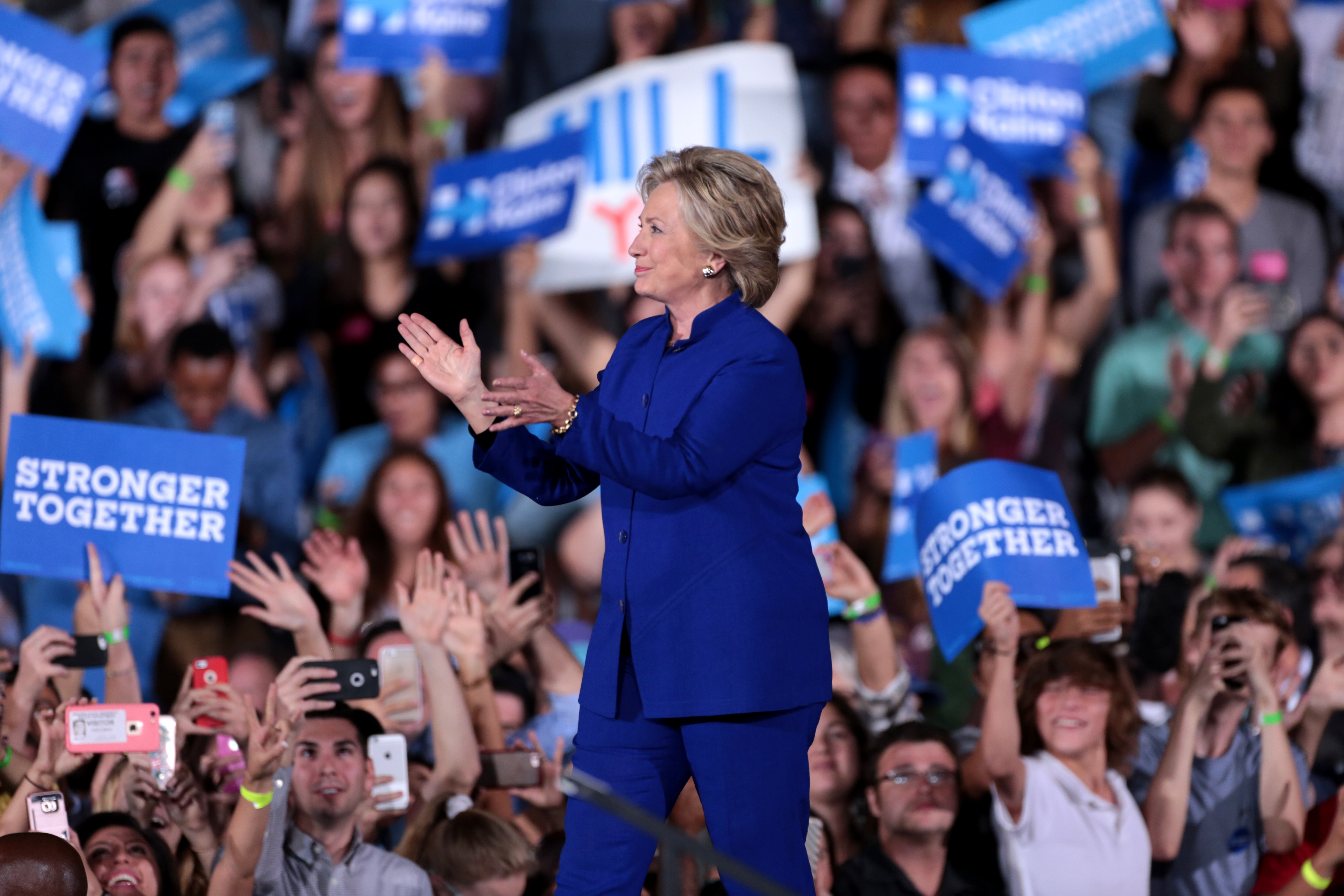 Former Secretary of State Hillary Clinton speaking with supporters at a campaign rally at the Intramural Fields at Arizona State University in Tempe, Arizona.